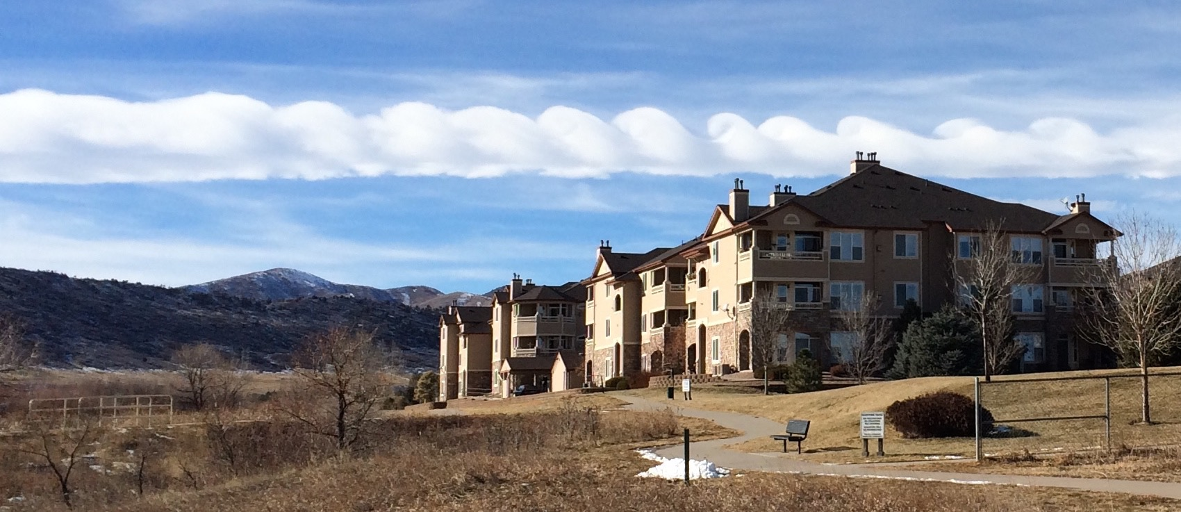 Clouds exhibiting Kelvin-Helmholtz instability, seen over the foothills near Denver, Colorado, USA, January 25, 2015.